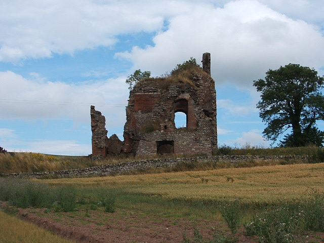 Torthorwald Castle This much ruined tower, with some parts patched to prevent collapse,was built in the 14th century by the Carlyle family and then passed to the Duke of Queensbury